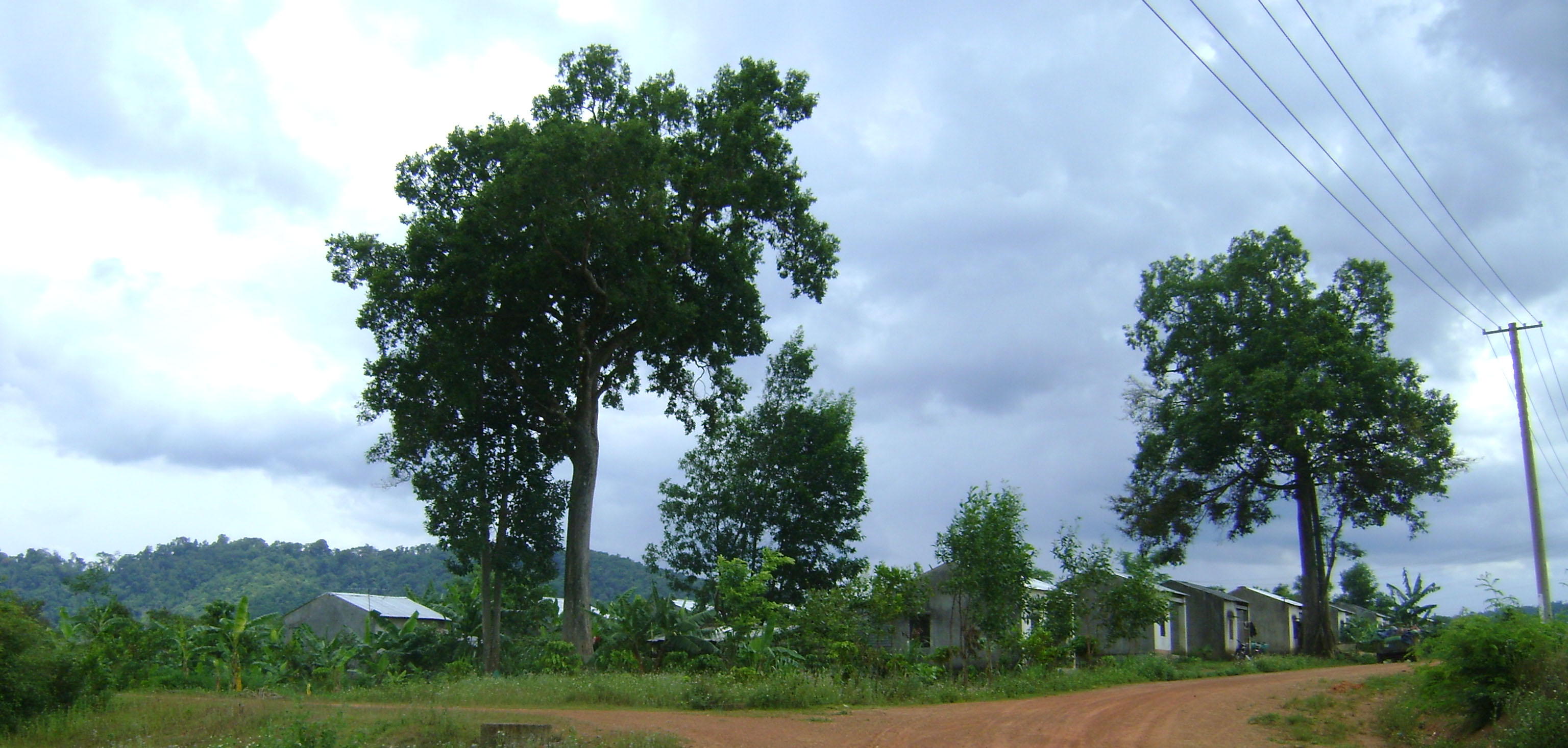 Cư Bông communal - EaKar district - Dak Lak Province, in the Highlands of Vietnam